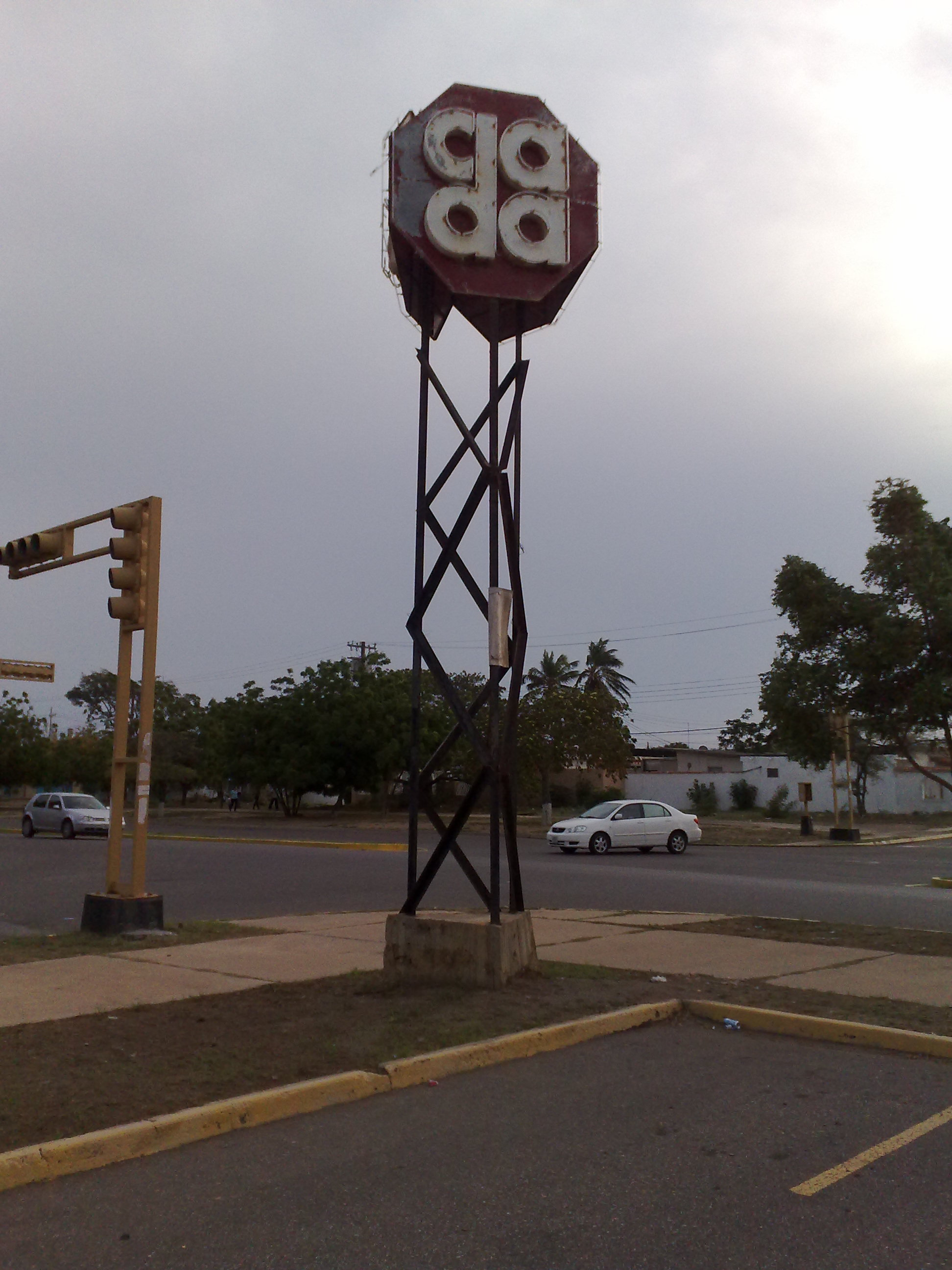 Cada sign in Judibana.